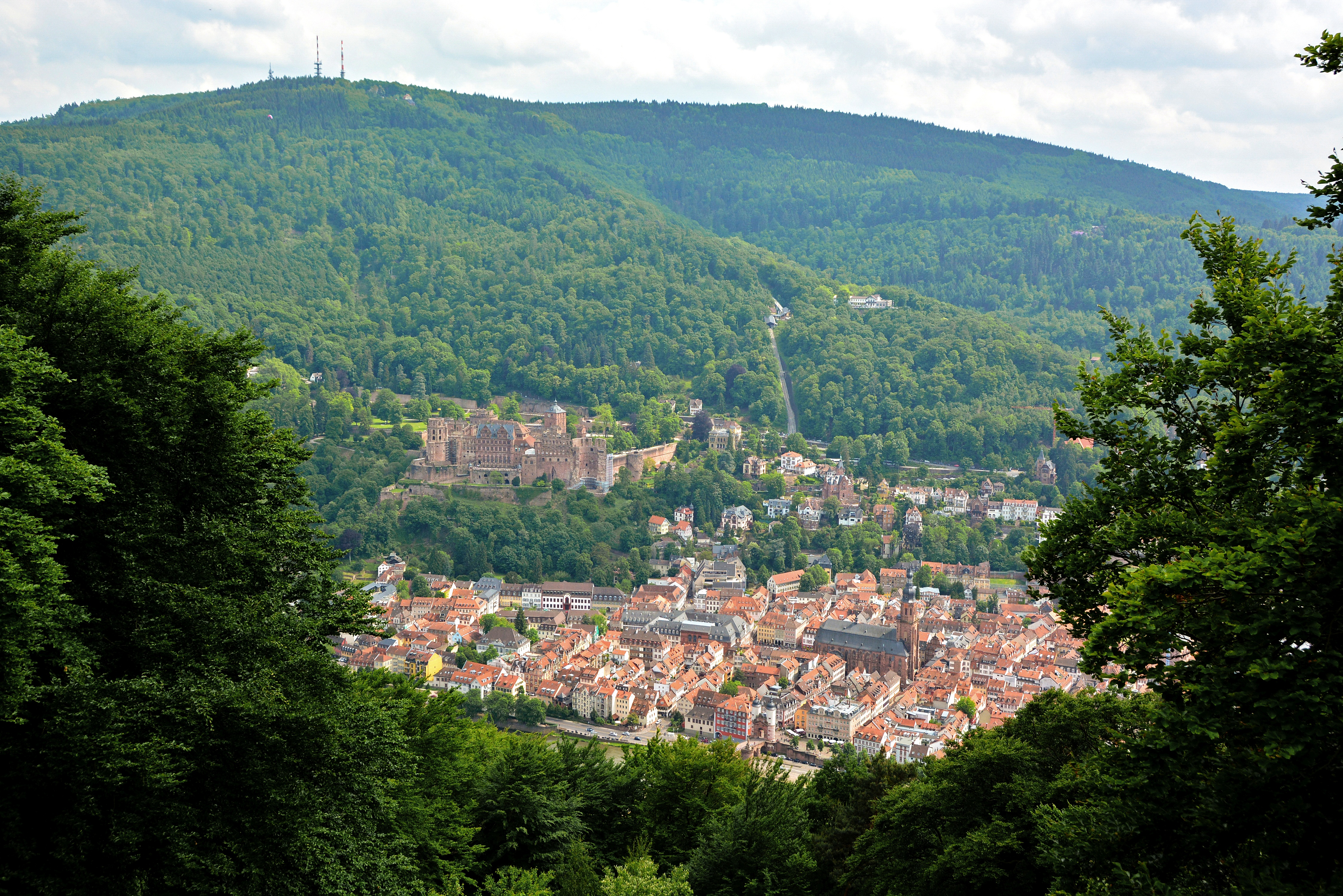 Heidelberg, Old Town, castle and Koenigstuhl, taken from the lookout tower Heiligenberg